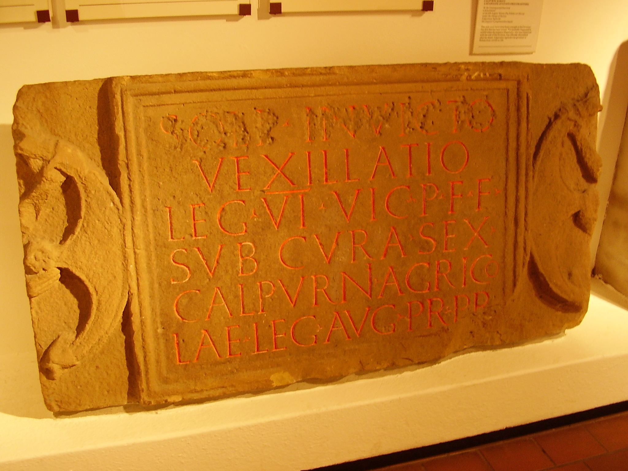 Roman Inscription, Corbridge, Northumberland RIB 1137 (date: 162-8) SOLI INVICTO VEXILLATIO LEG VI VIC P F F SVB CVRA SEX CALPVRNI AGRICO LAE LEG AVG PR PR "To the Invincible Sun-god, a detachment of the Sixth Legion, the Victorious, Loyal and Faithful one, under the command of Sextus Calpurnius Agricola, Legate of the Augustus with pro-praetorian power."